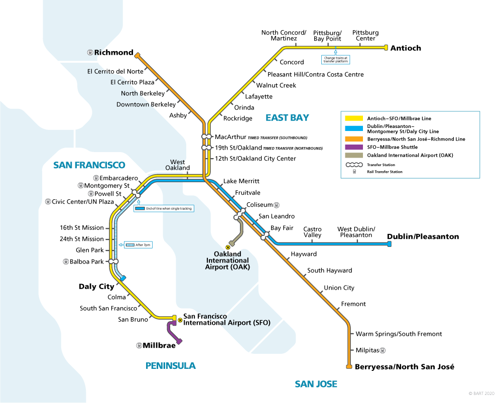 BART Sunday web map, effective with the June 13, 2020 beginning to service to Milpitas and Berryessa